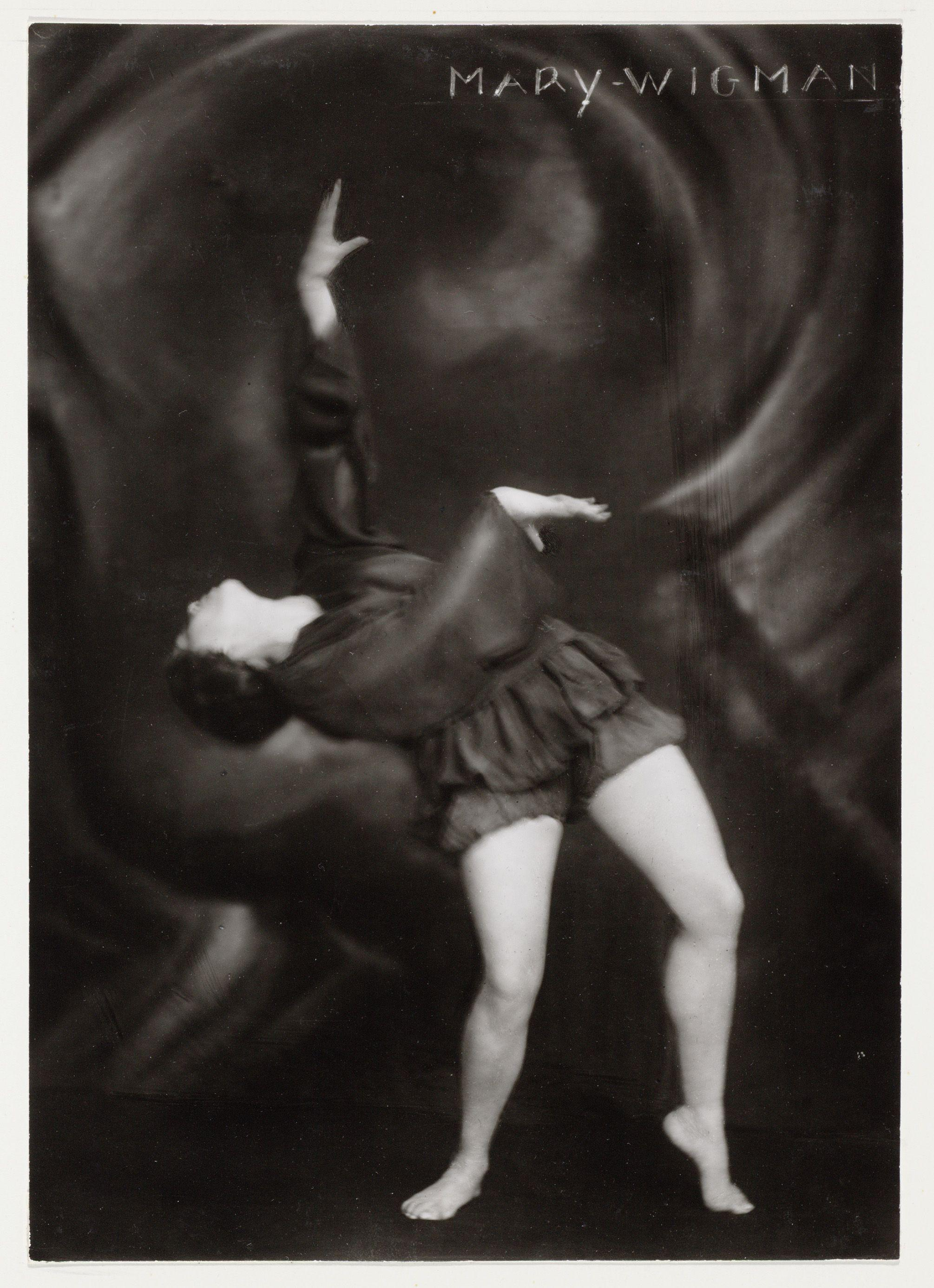 Photograph of German dancer Mary Wigman by Jacob Merkelbach (1877-1942)